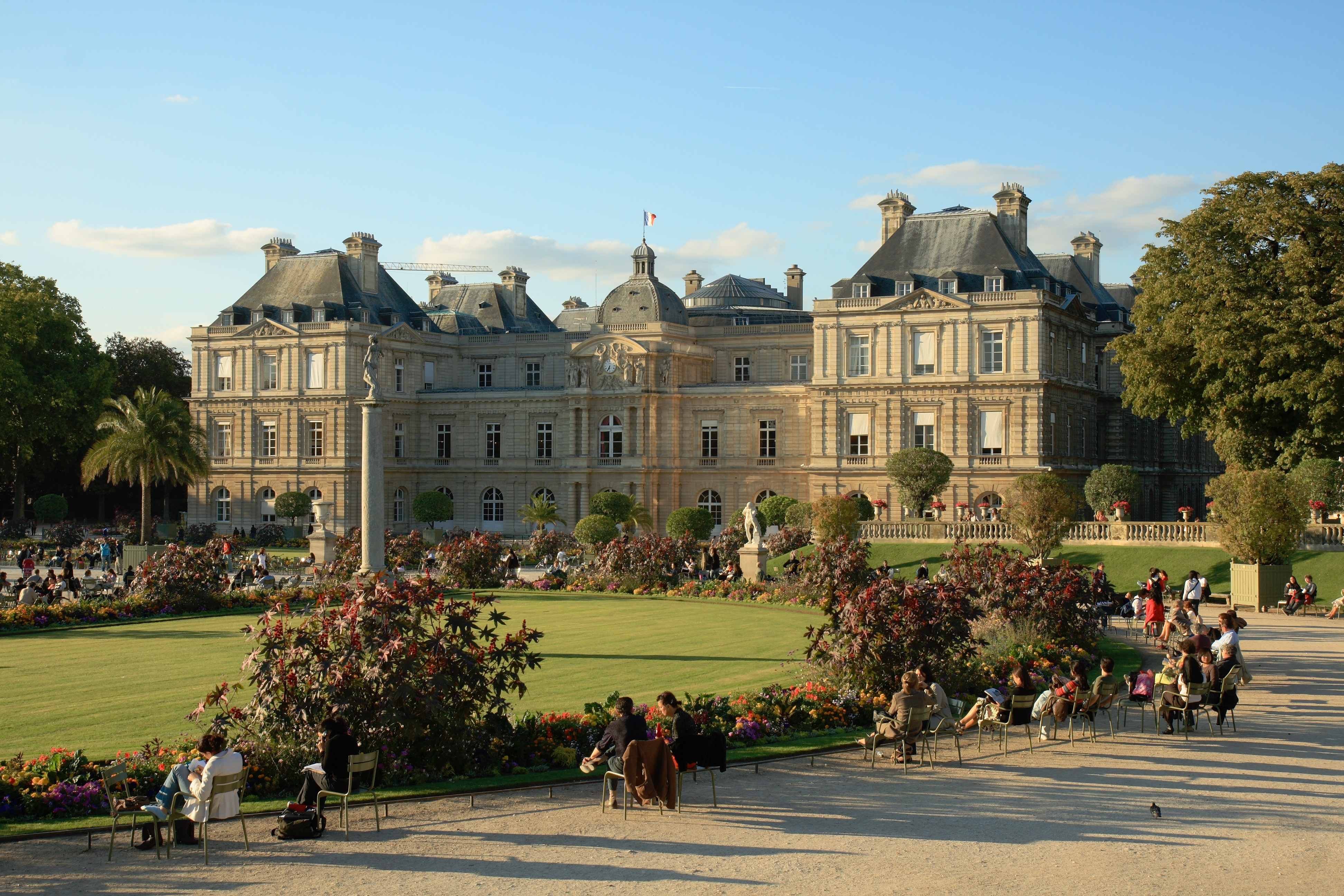 The palace of Luxembourg, in the Luxembourg garden, Paris, at sunset.